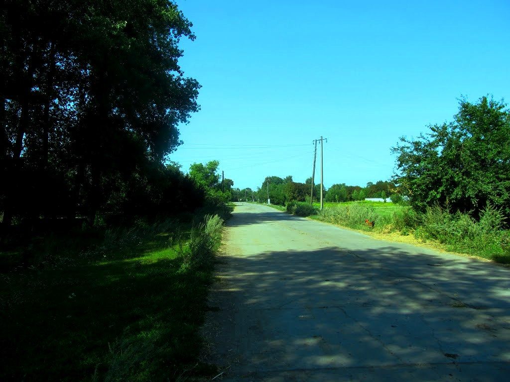 Manatenska street